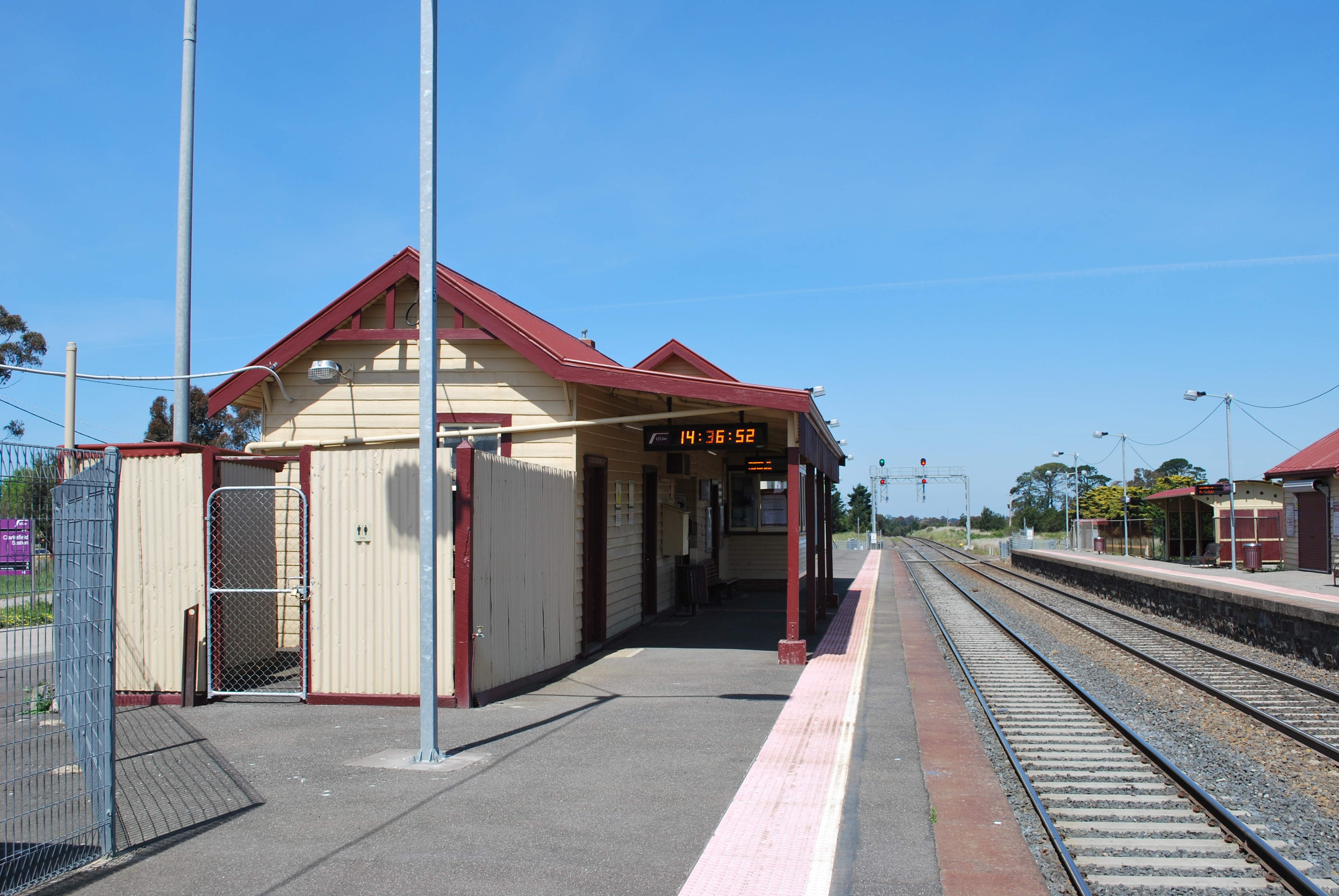 Railway goods shed at Clarkefield, Victoria